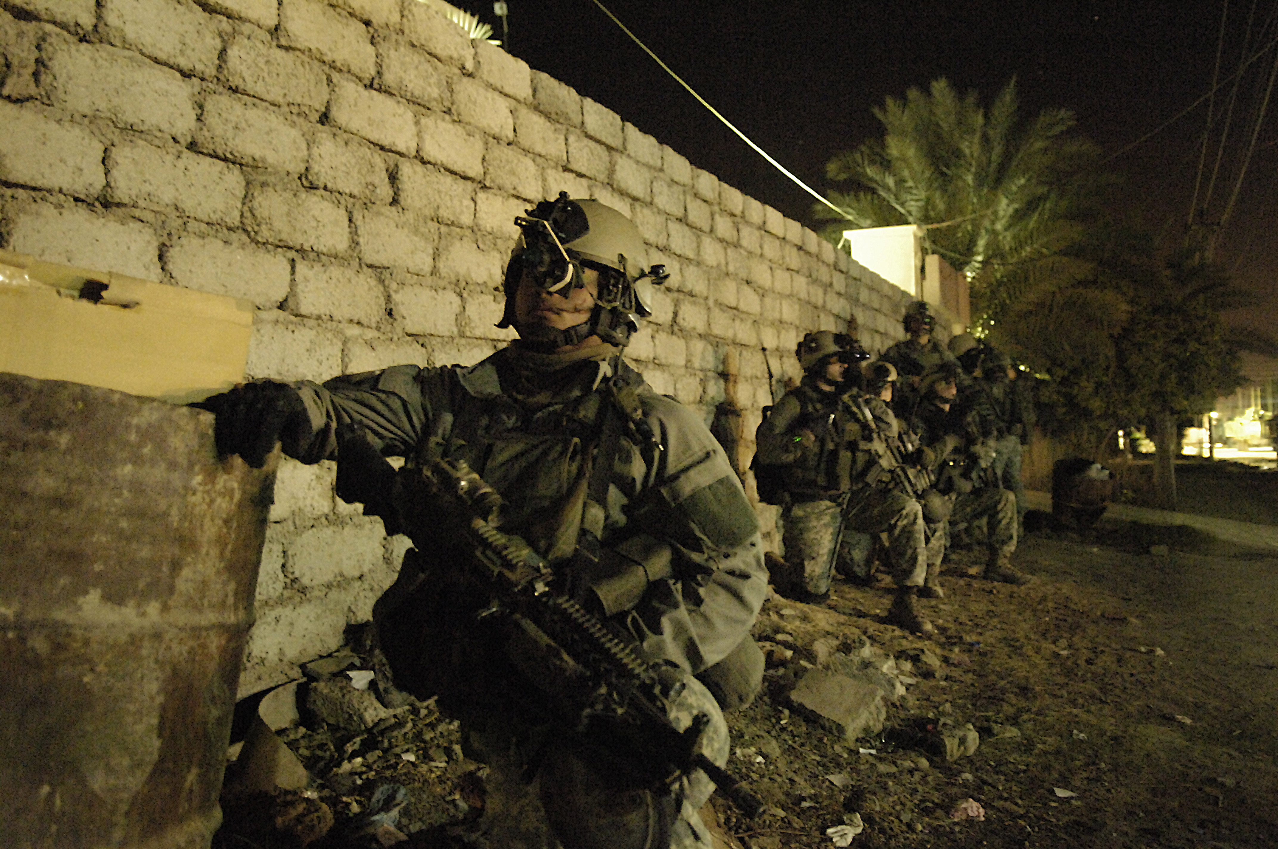 U.S. Army soldiers of the 75th Ranger Regiment conduct a security halt in Iraq on April 26, 2007.